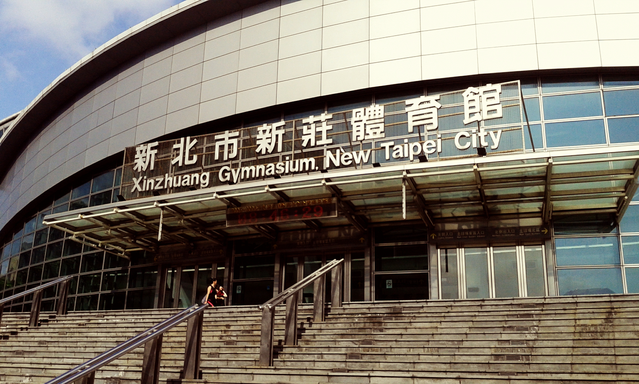 New Taipei Xinzhunag Gymnasium 中文（台灣）: 新莊體育館大門